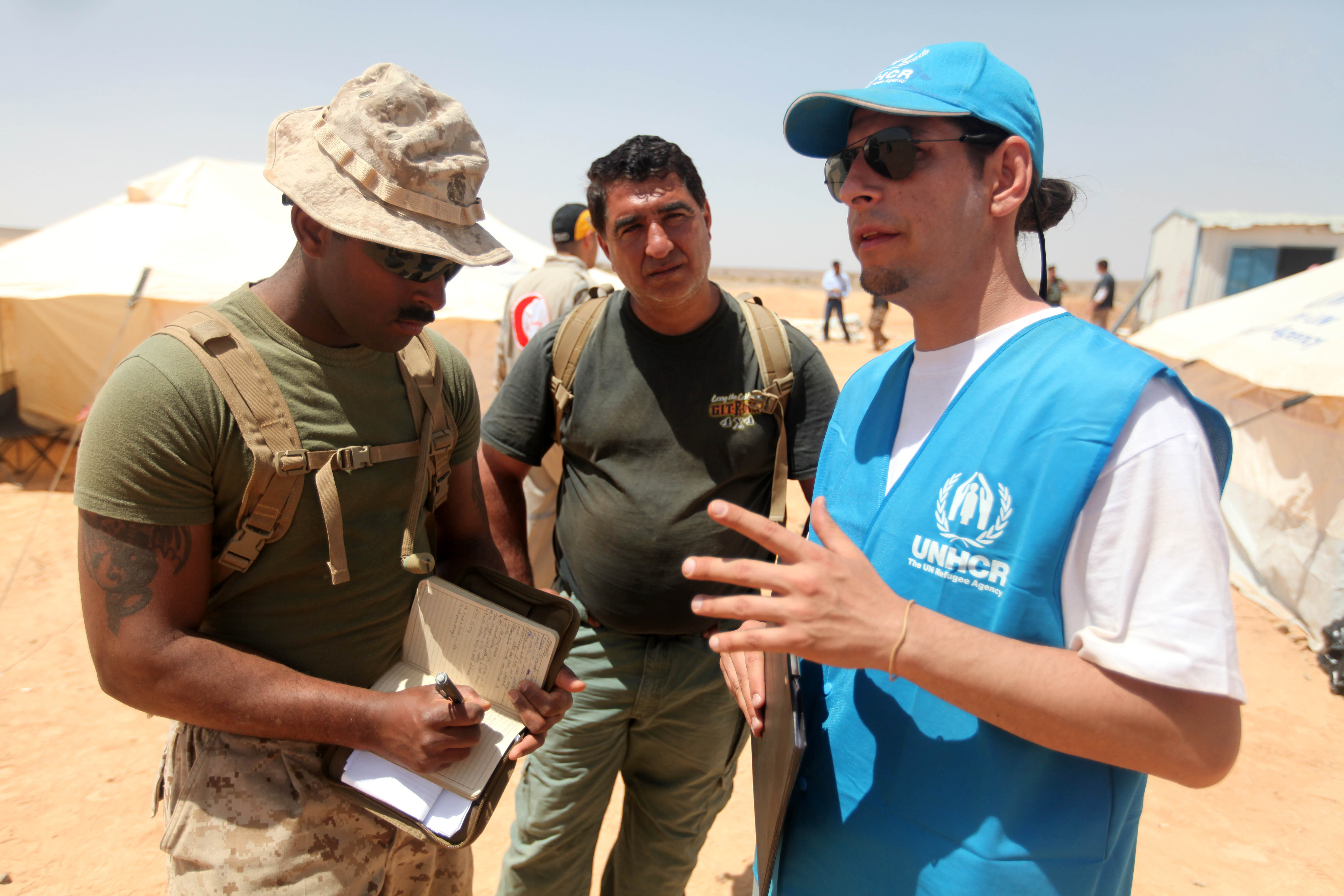 Sgt. Brian Floyd, left, a Marine with the 24th Marine Expeditionary Unit, meets with nongovernmental workers in order to provide liaison between civilian and military entities during multilateral humanitarian assistance training as part of Exercise Eager Lion 12. During Eager Lion 12, the 24th MEU will participate in a variety of training exercises with partnered nations at different locations throughout the country to increase interoperability and learn about other countries' militaries. Eager Lion 12 is a recurring, multi-national exercise designed to strengthen military-to-military relationships through a joint, whole-of-government, multinational approach to future complex national security challenges. The 24th MEU, partnered with the Iwo Jima Amphibious Ready Group, is currently deployed to the Central Command area of operations as a theater reserve and crisis response force.